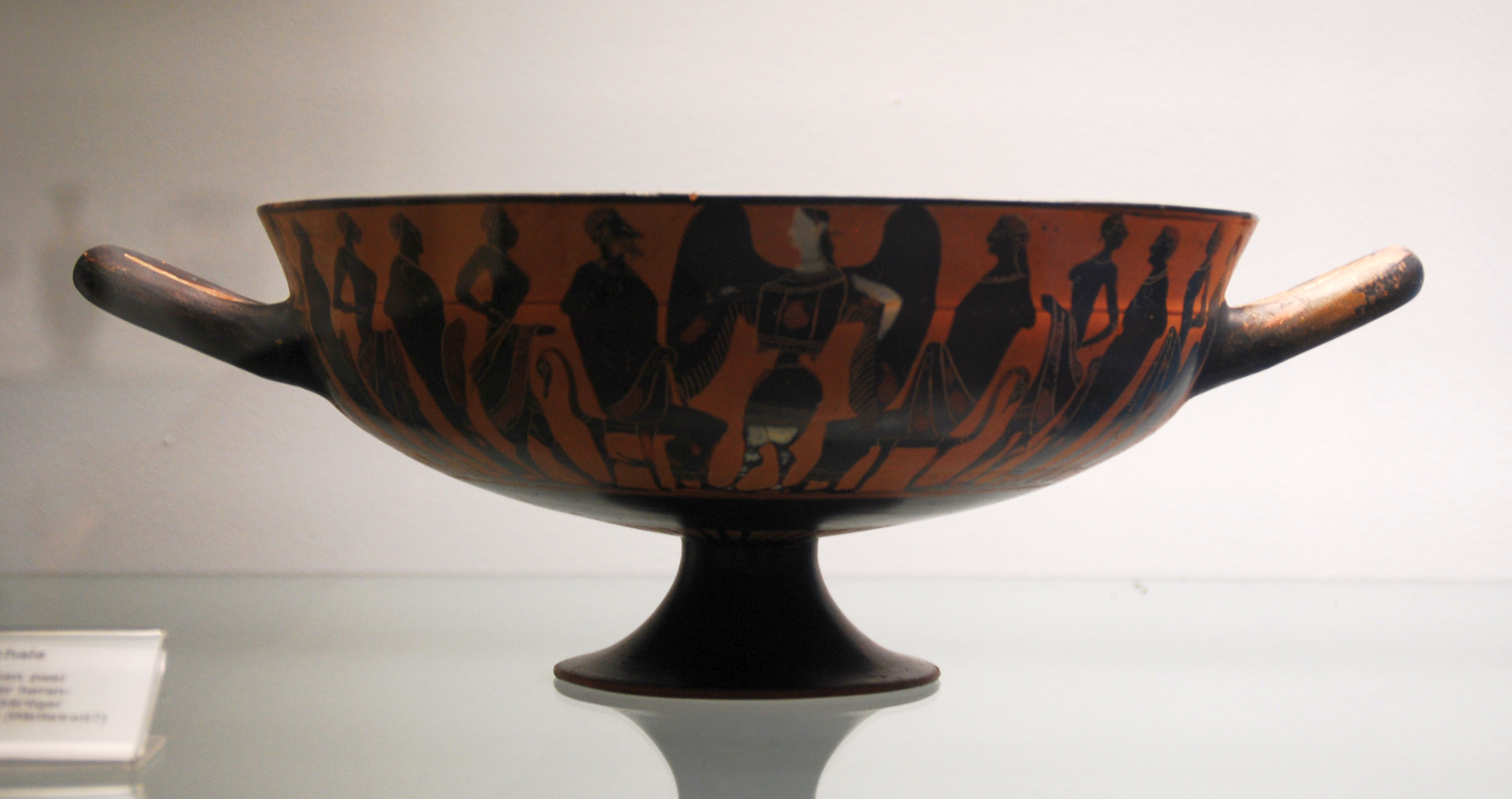 Uploaded Raw material, everybody can work on Names, Categories, Descriptions and so on.. - pictures of descriptions should be deleted after usage.